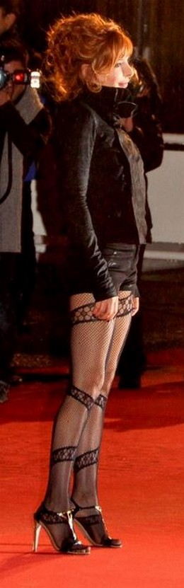 Mylène Farmer on NRJ Music Awards